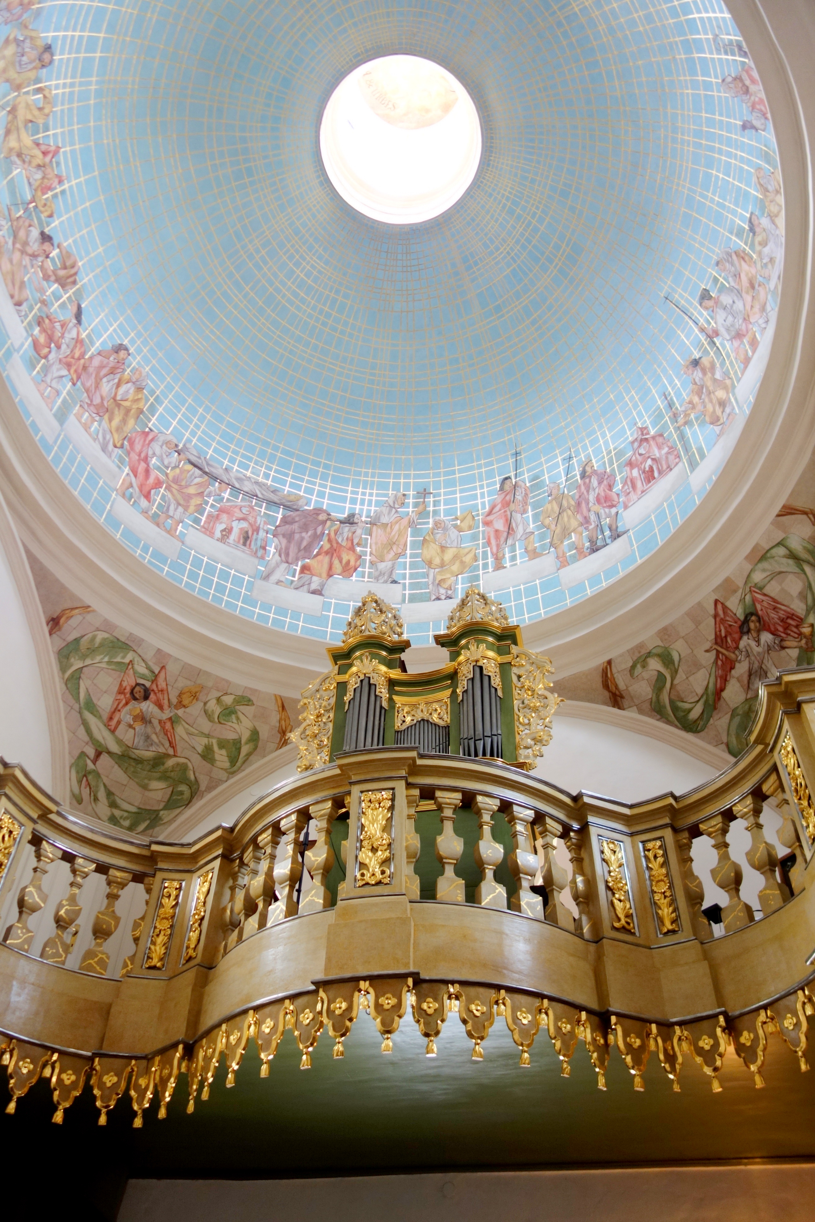 Church of Saint Adalbert in Kraków, Poland